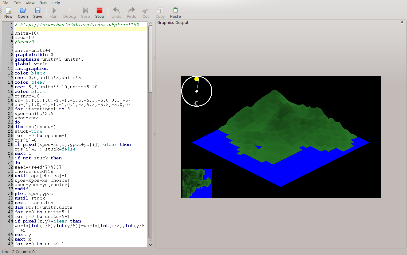 Basic-256 1.0.0.0 running a demo program from the forums on Arch Linux